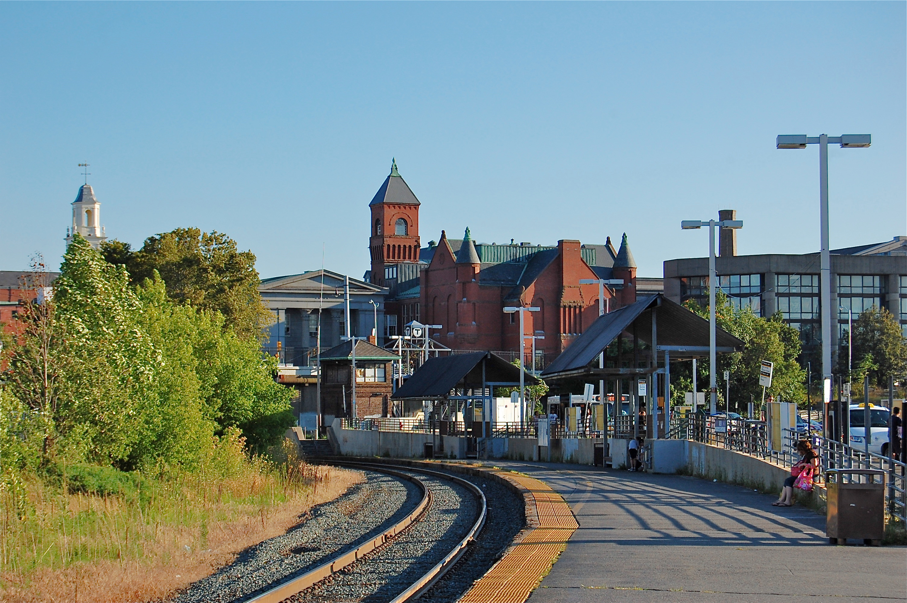 A 2010 view of Salem Station on the MBTA's Newburyport-Rockport Line. In 2013 the station is being rebuilt and a parking garage added.